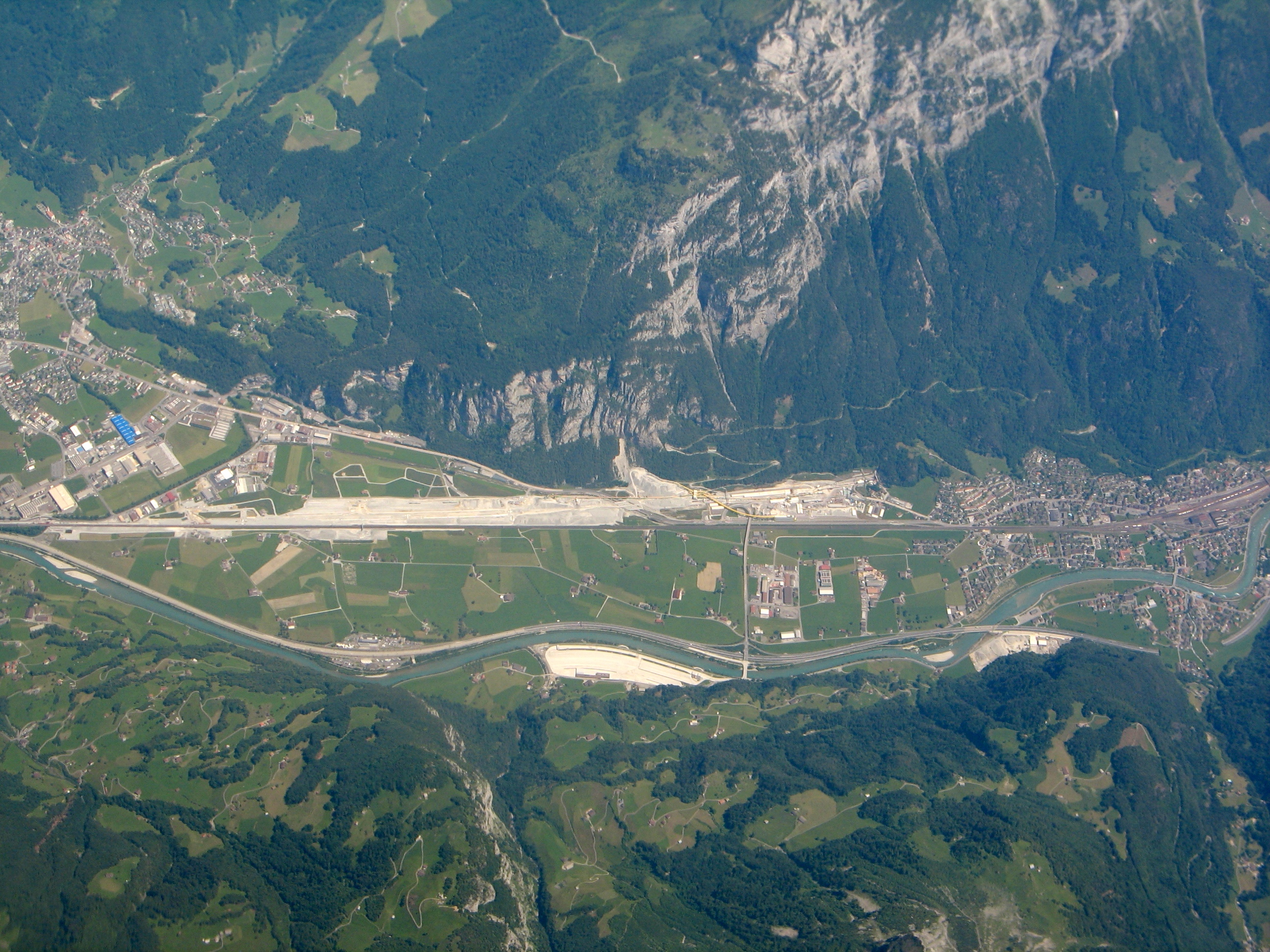 Gotthard Base Tunnel, the building site installations near the North entrance.